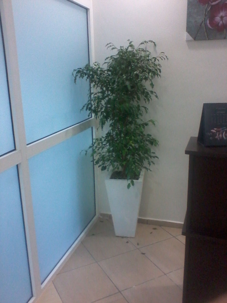 Household_Plants